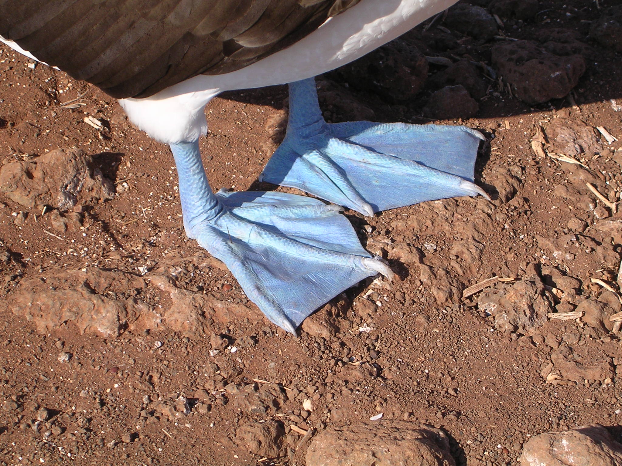 Detail of the legs of a blue-footed booby (Sula nebouxii)